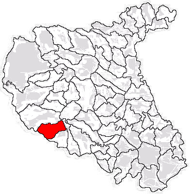 Limits of commune within Vrancea County